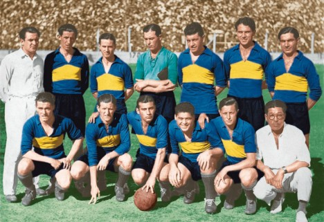 Boca Juniors first professional champion team in 1931. (stand): Juan Evaristo, Dedovich, Fosatti, Mutis, Silenzi, Arico Suárez. (seat): Nardini, Tarasconi, Varallo, Cherro y Alberino.